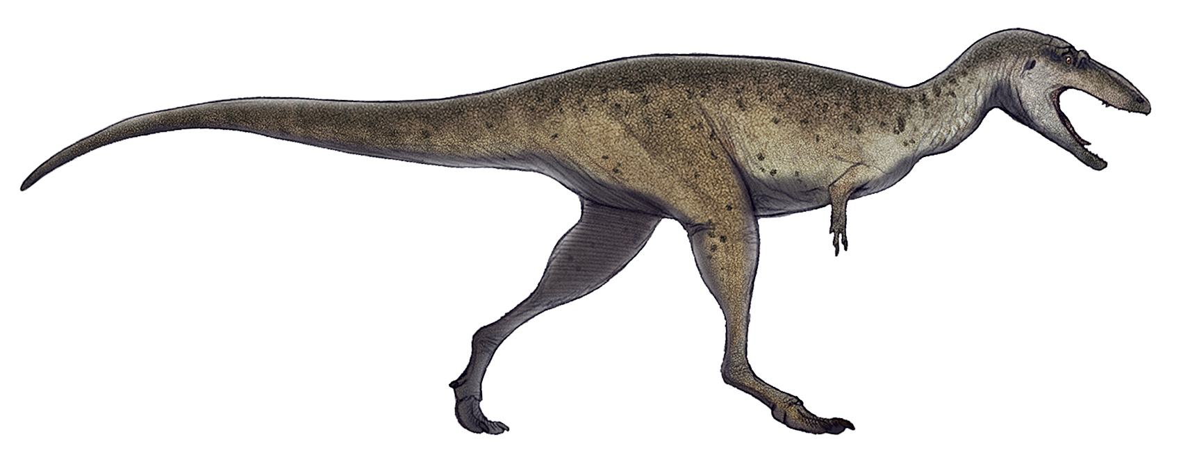 Restoration of Gualicho shinyae based on holotype MPCN PV 0001. Restored using skeletal diagram found in